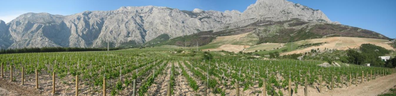 Vineyards near Makarska, up on the Biokovo mountain